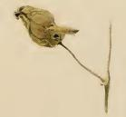 Stainton’s Natural History of the Tineina (1855–1873): Coleophora silenella capsule of Silene vulgaris with larval case attached